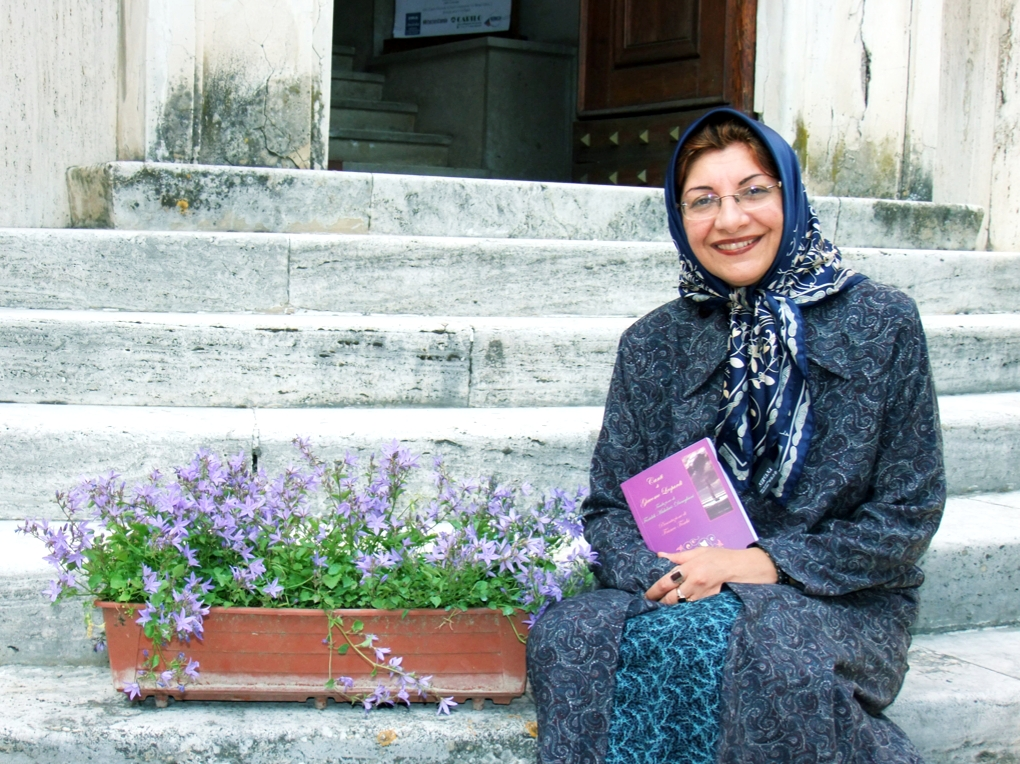 Farideh Mahdavi Damghani